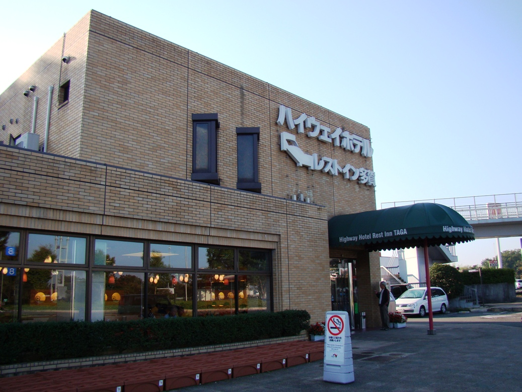 Taga service area Meishin expressway Shiga Japan